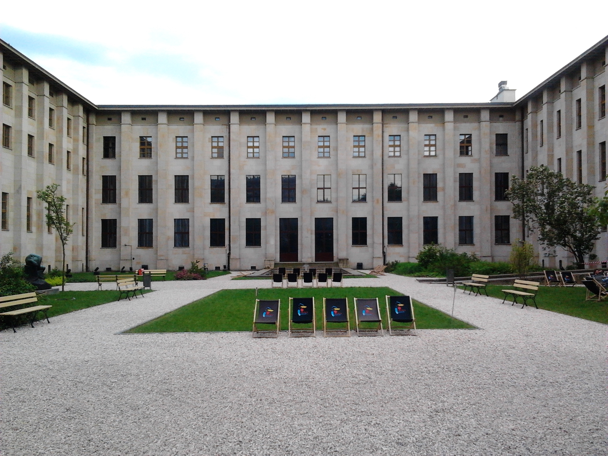 Stanisław Lorentz Courtyard of the National Museum in Warsaw.